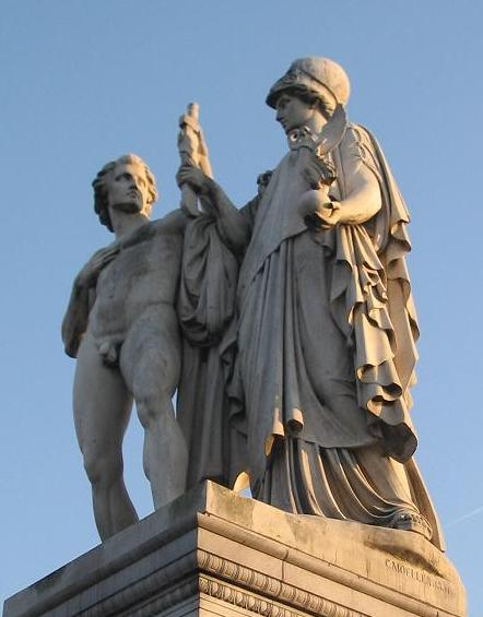 Palace bridge in Berlin, Athena arms the warrior (Athene bewaffnet den Krieger) by Karl Heinrich Möller 1851